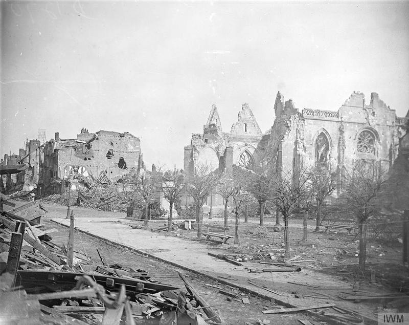 The German Withdrawal To the Hindenburg Line, March-april 1917 Ruins of the church of St. Jean in Peronne, blown up by the Germans, March 1917.